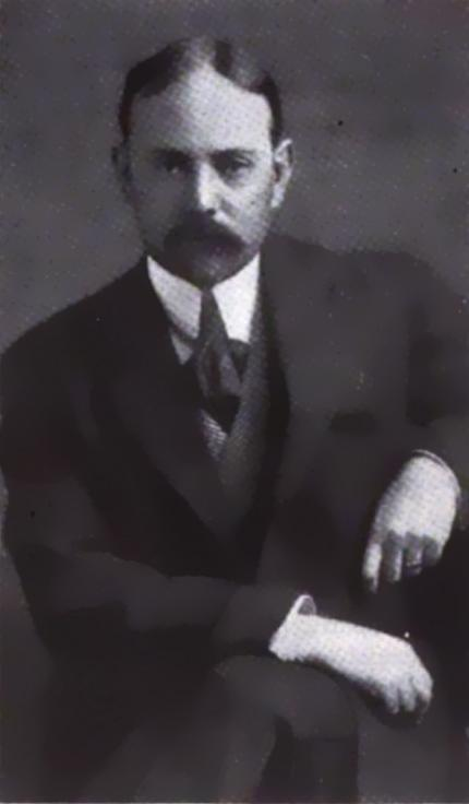 1910 portrait of William Vaughn Moody.